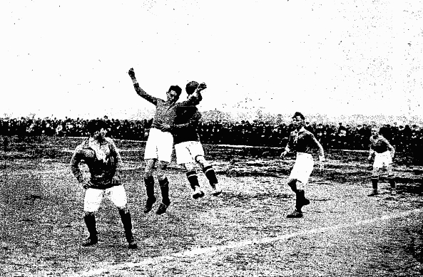 Polish associate footballer Wawrzyniec Staliński's head shot during Warta Poznań - Ostrovia football match.